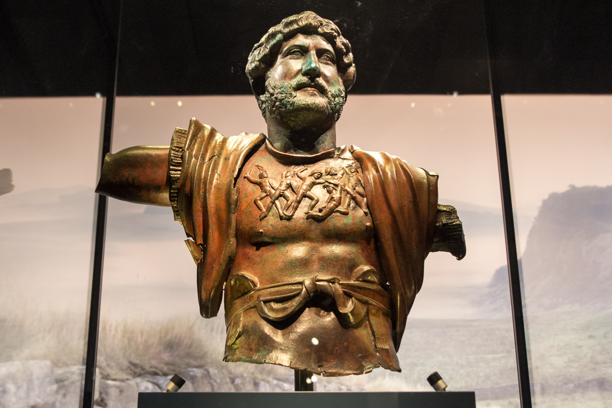 Bust of Hadrianus from Tel Shalem, on display at the Israel Museum in Jerusalem